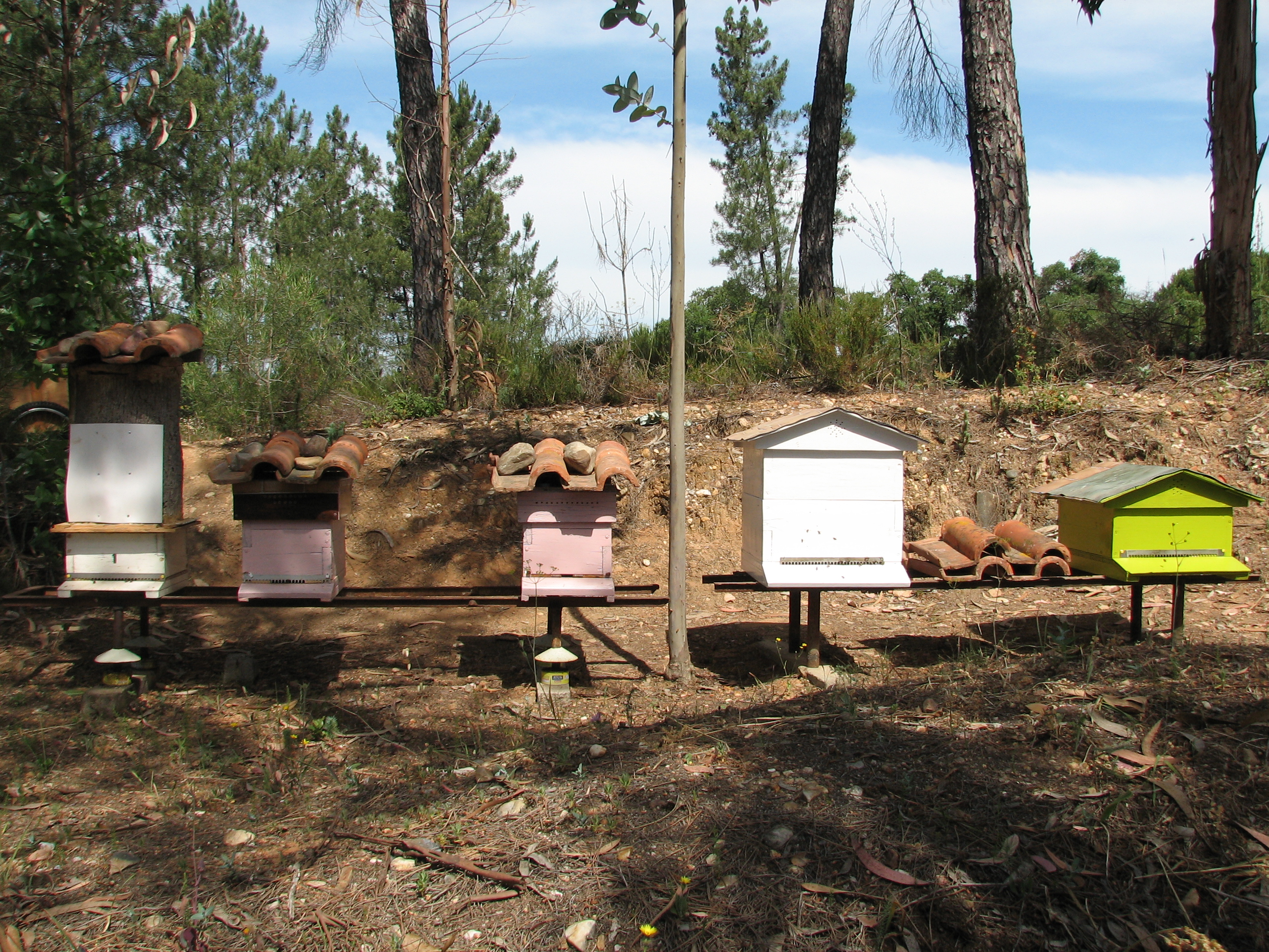 Apiary Author:Daniel Feliciano Location:Torres Novas - Portugal